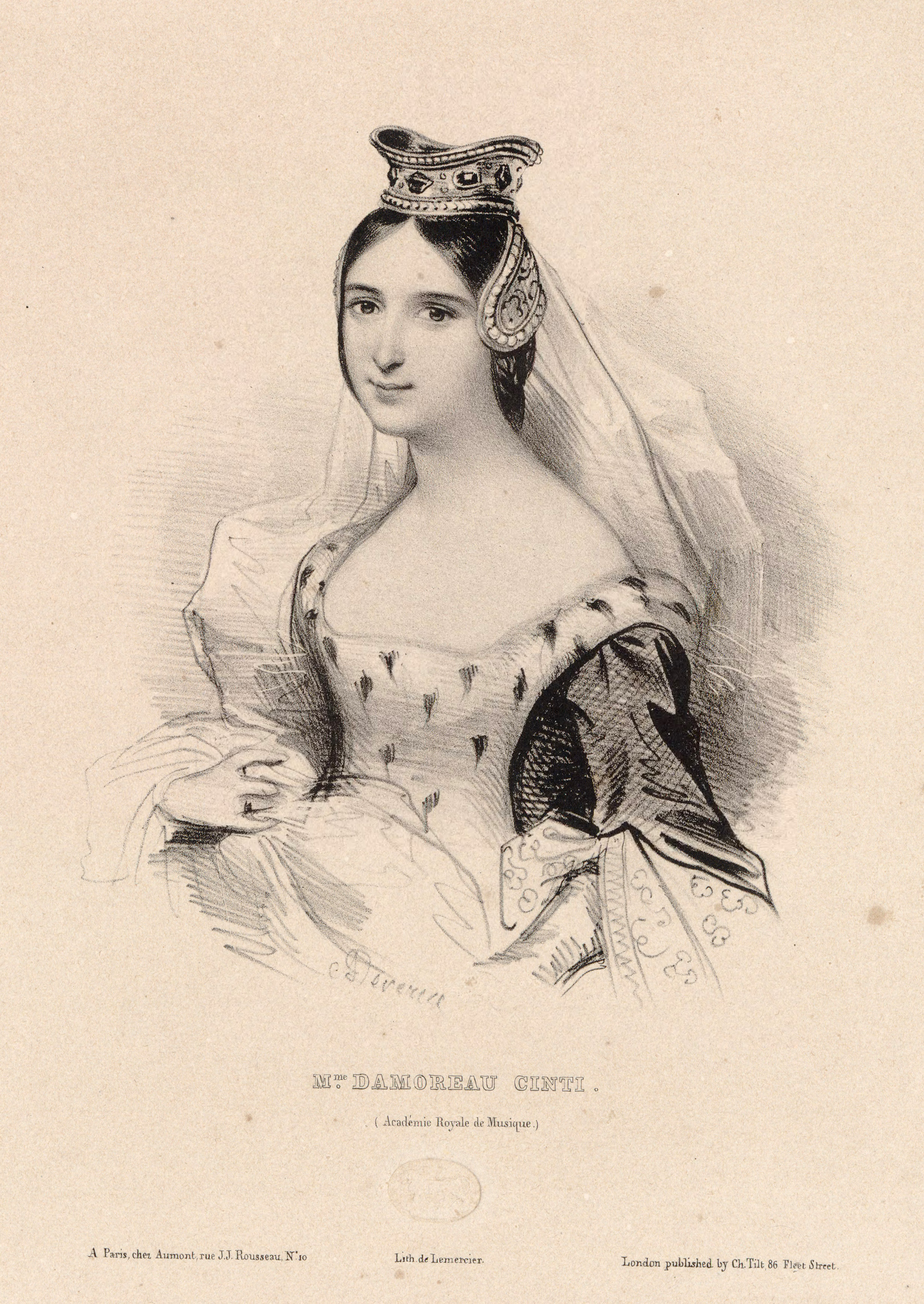 Laure Cinti-Damoreau (1801–1863), French operatic soprano